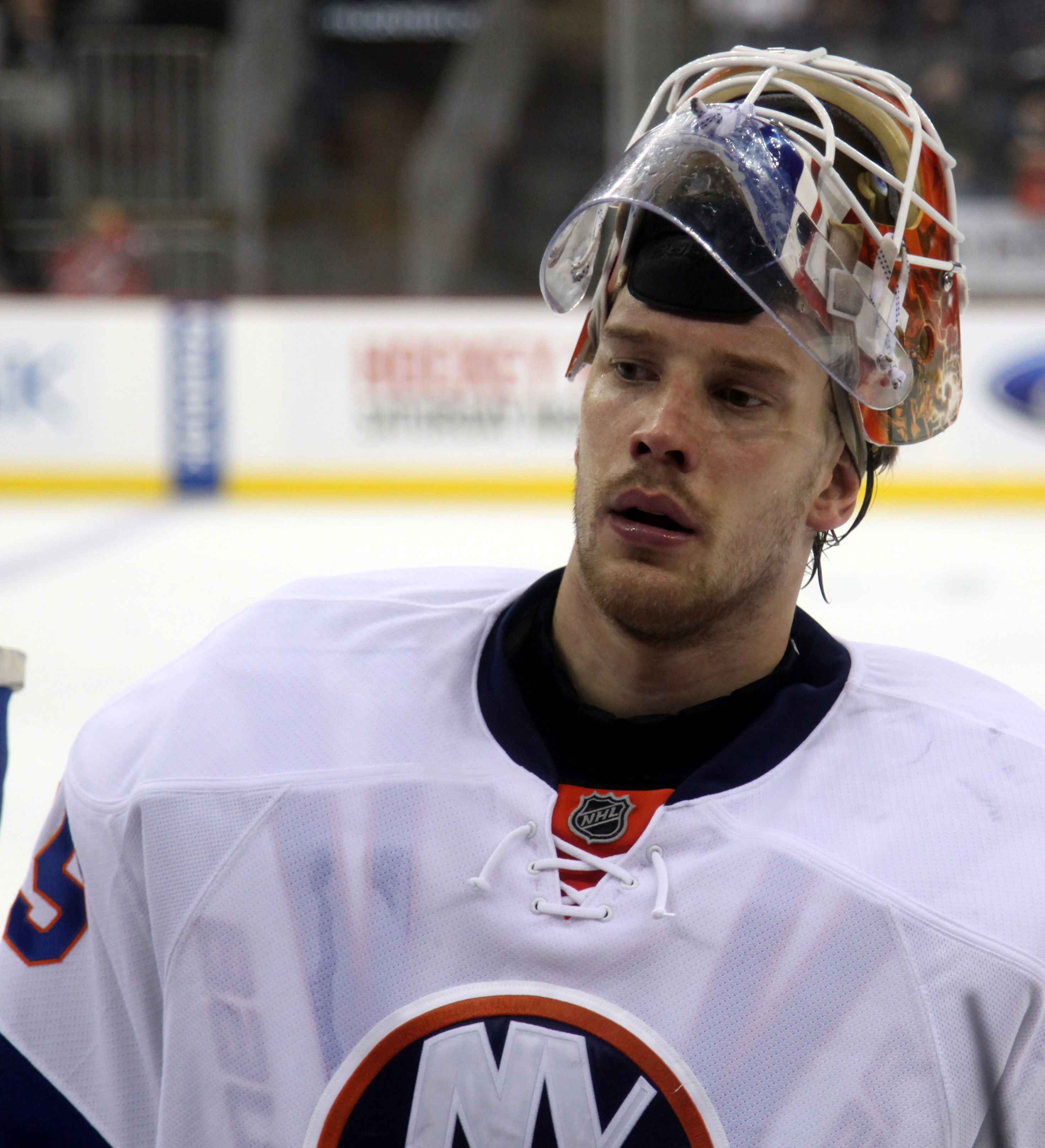 Nilsson as an Islander in 2014.